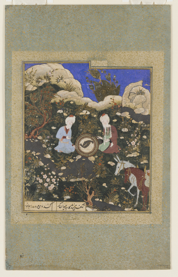 Al-Khadir (right) and companion Zul-Qarnain (Alexander the Great) marvel at the sight of a salted fish that comes back to life when touched by the Water of Life. "When Alexander sought he did not find what Khizr found unsought". From Sikandar Nâma, the Persian Alexander Romance, LXIX.75 Image from